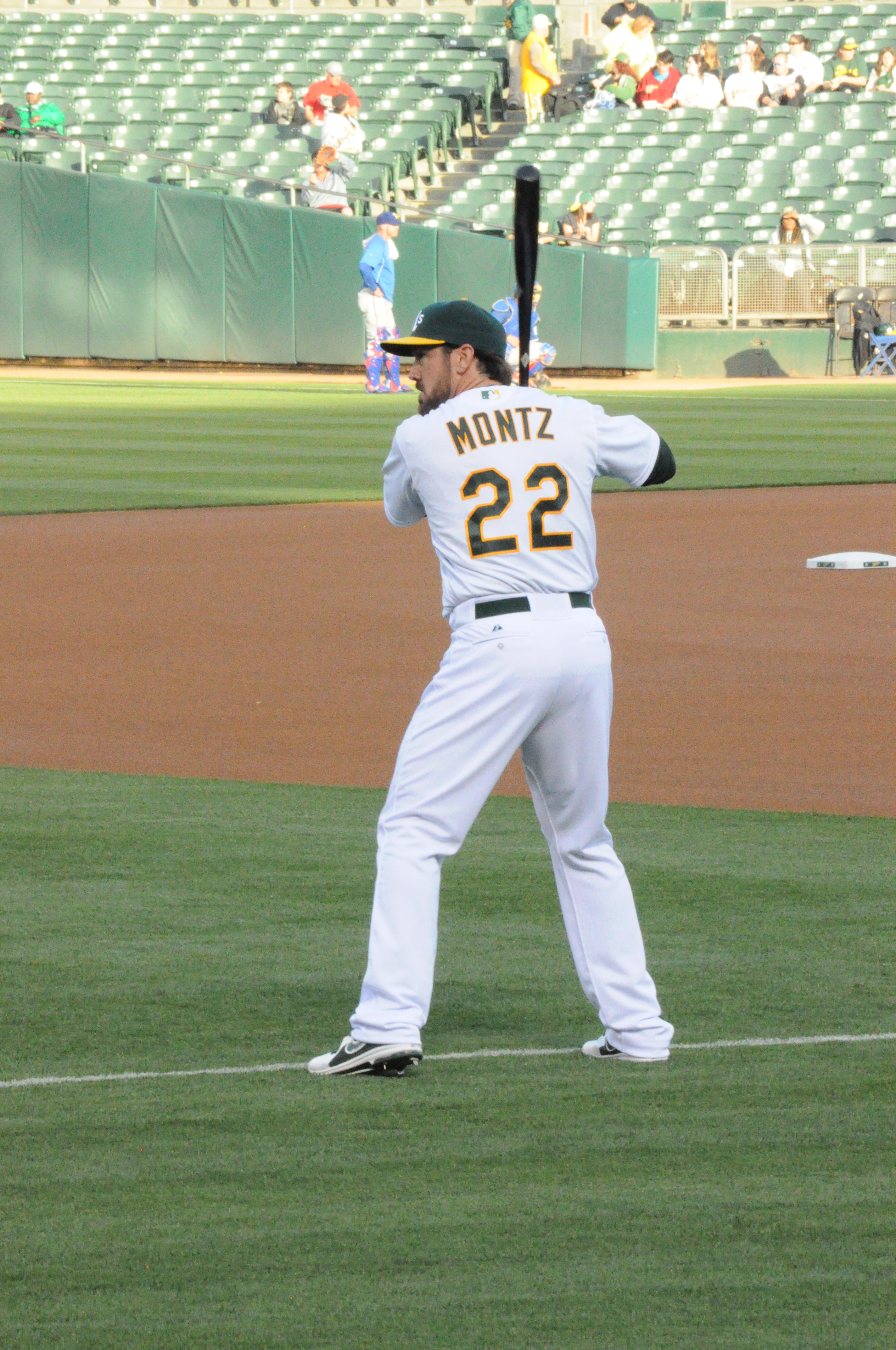 Montz warms up before a game, 5/14/13